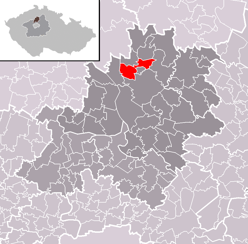 Location of Želízy municipality within Mělník District and administrative area of Mělník as a Municipality with Extended Competence.